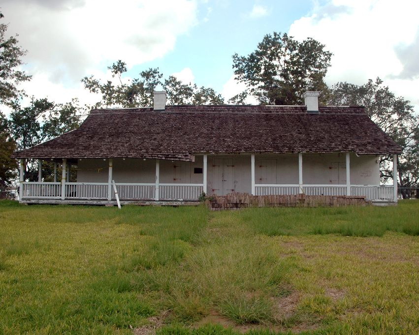 Old Spanish Fort (Pasgagoula, Mississippi) suffered wind and flood damage from Hurricane Katrina on August 29, 2005.